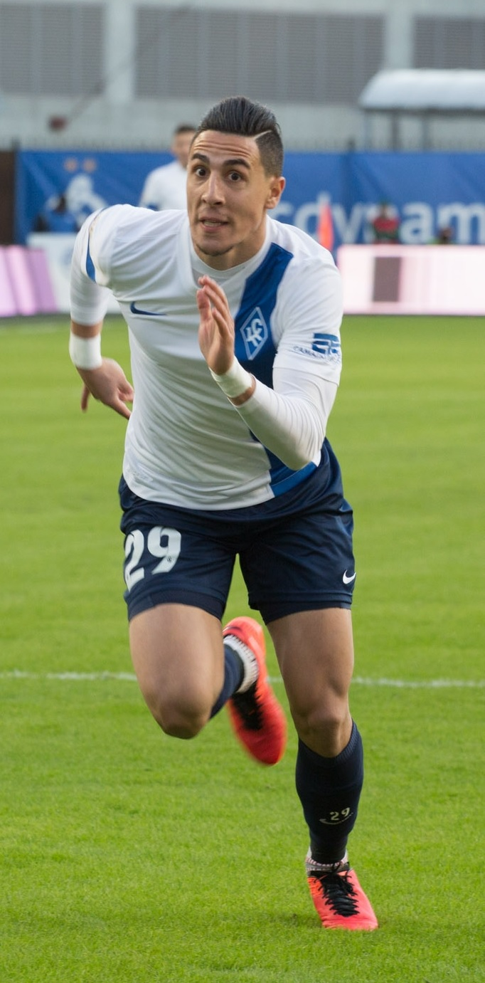 Gianni Bruno in action for FC Krylia Sovetov Samara in a game against FC Dynamo Moscow on 17 April 2016.